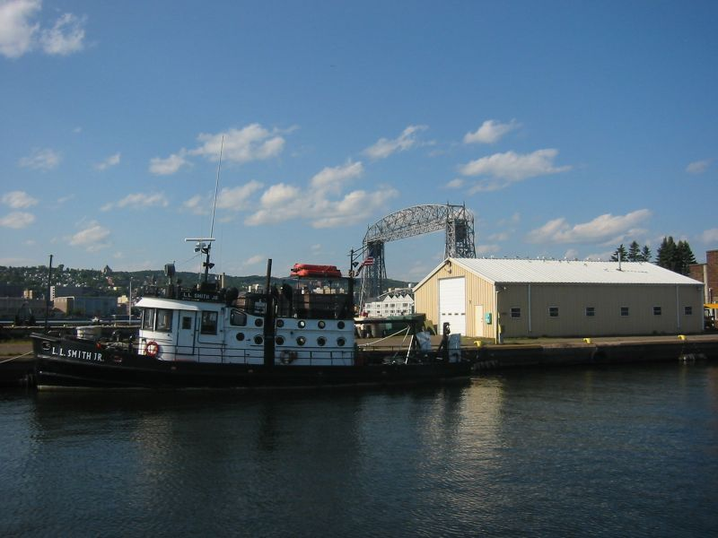 author:Todd Murray uploaded from Flickr:[1] used with permission